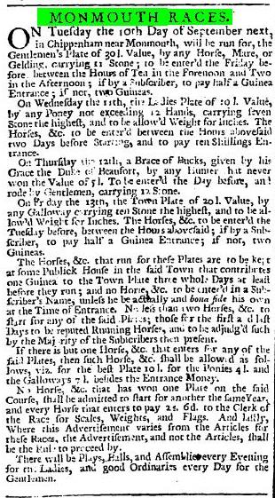 Monmouth Races 1734 - London Evening Post August 10, 1734